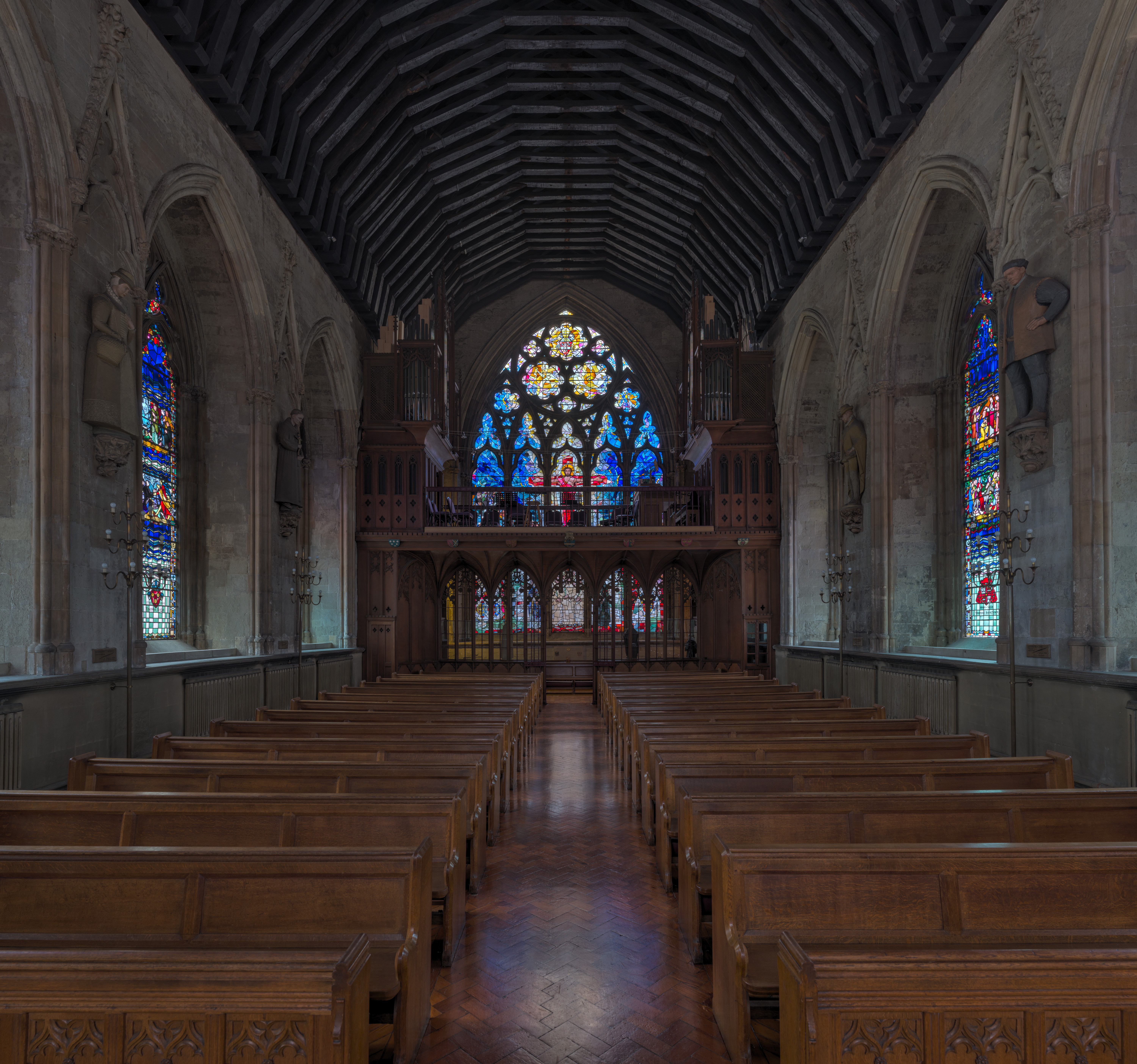 St Etheldreda's Church in London, England, facing the western stained glass window at the entrance to the church.